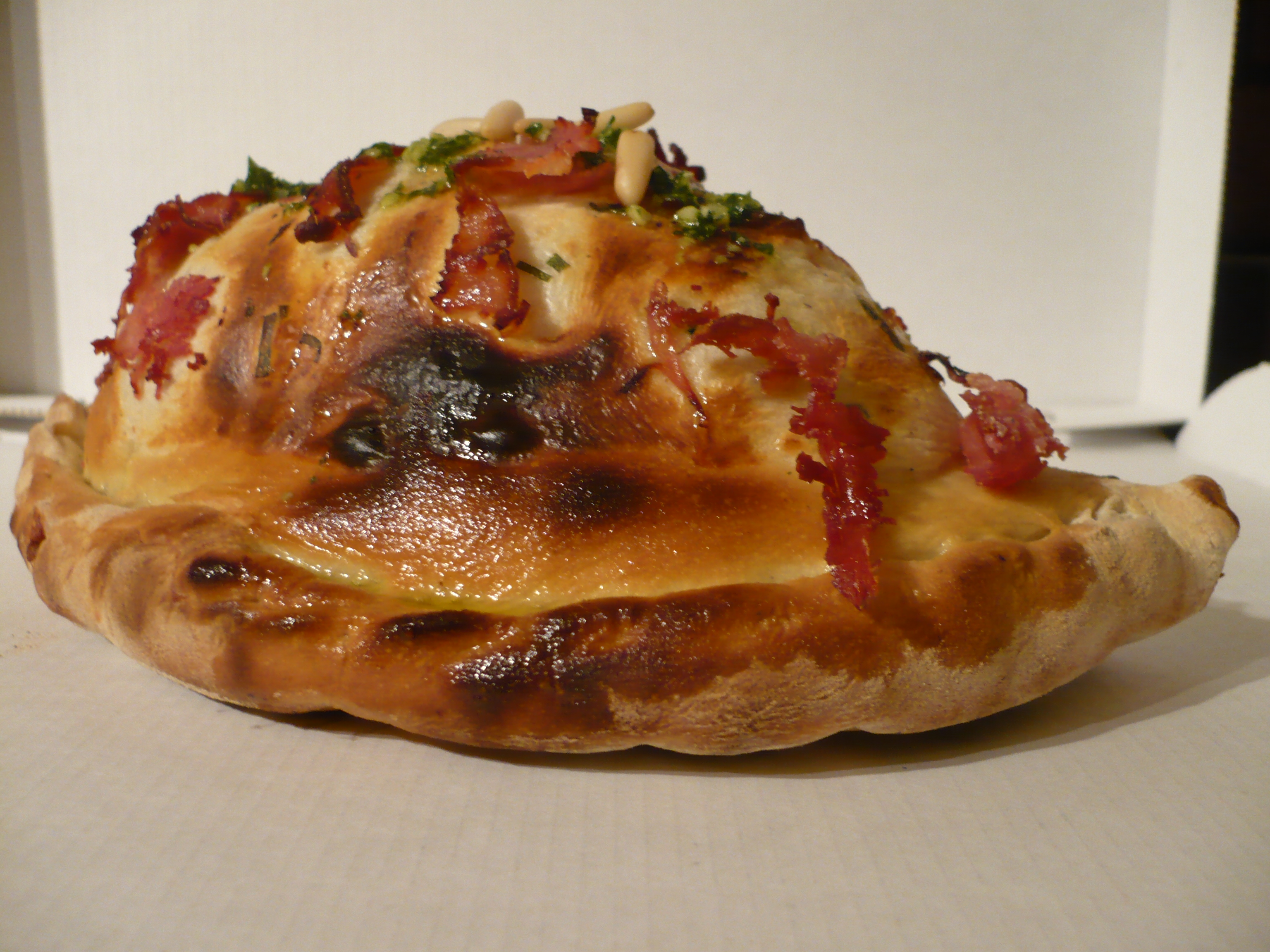 A traditional calzone